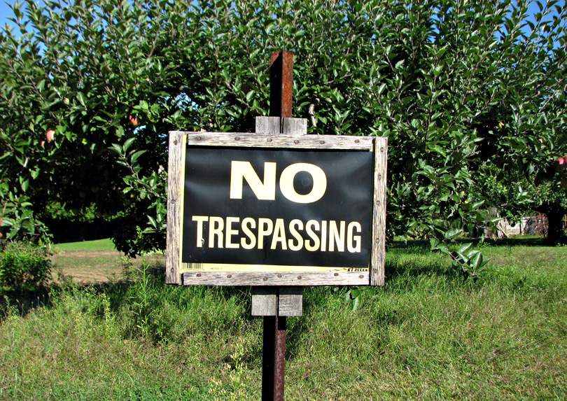 No trespassing sign. This photo was used in the following places: 1. 2. 3. 4. 5. 6. 7. 8. 9.